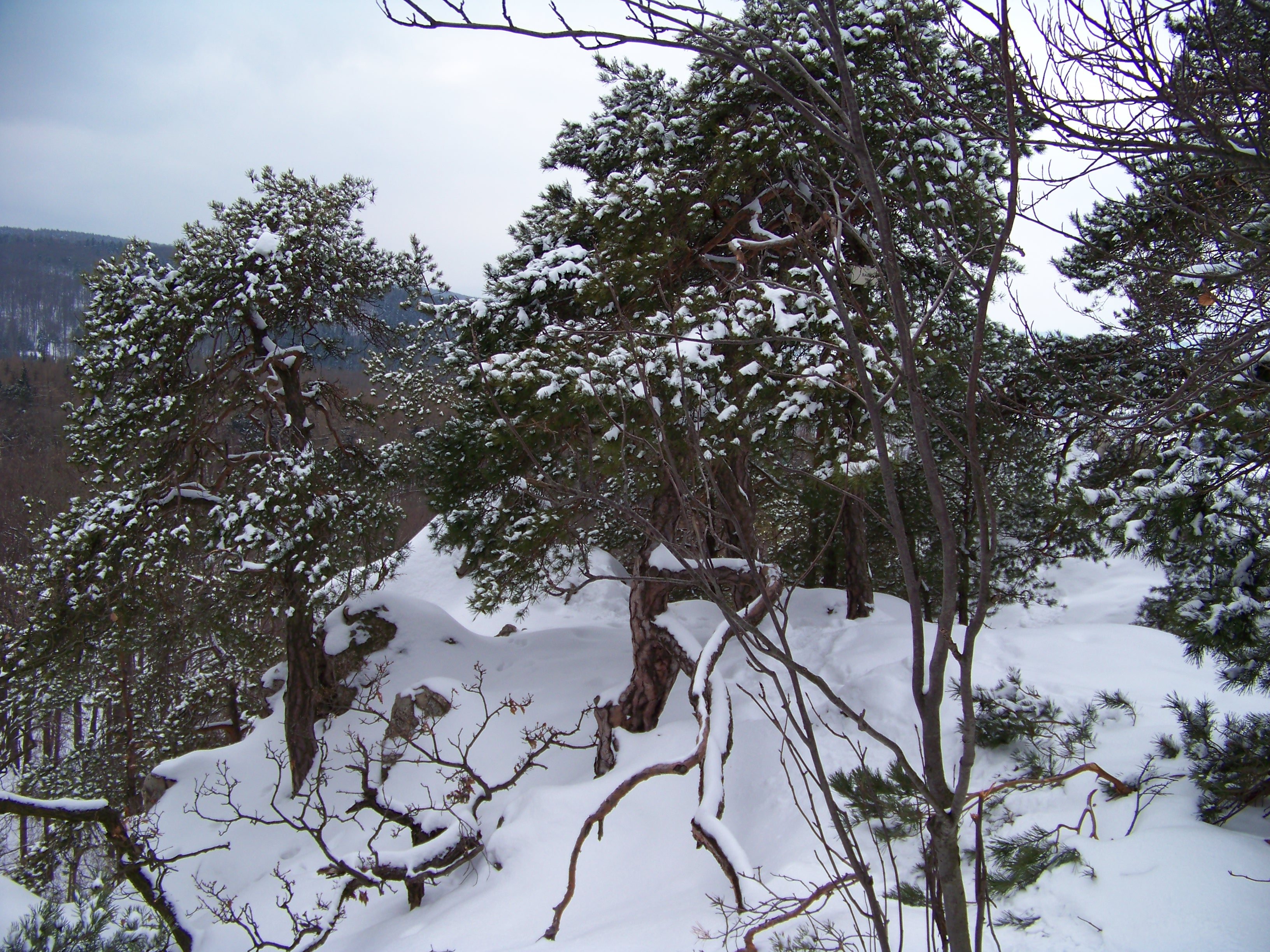 Řevnice, Prague-West District, Central Bohemian Region, the Czech Republic. Babka Hill.